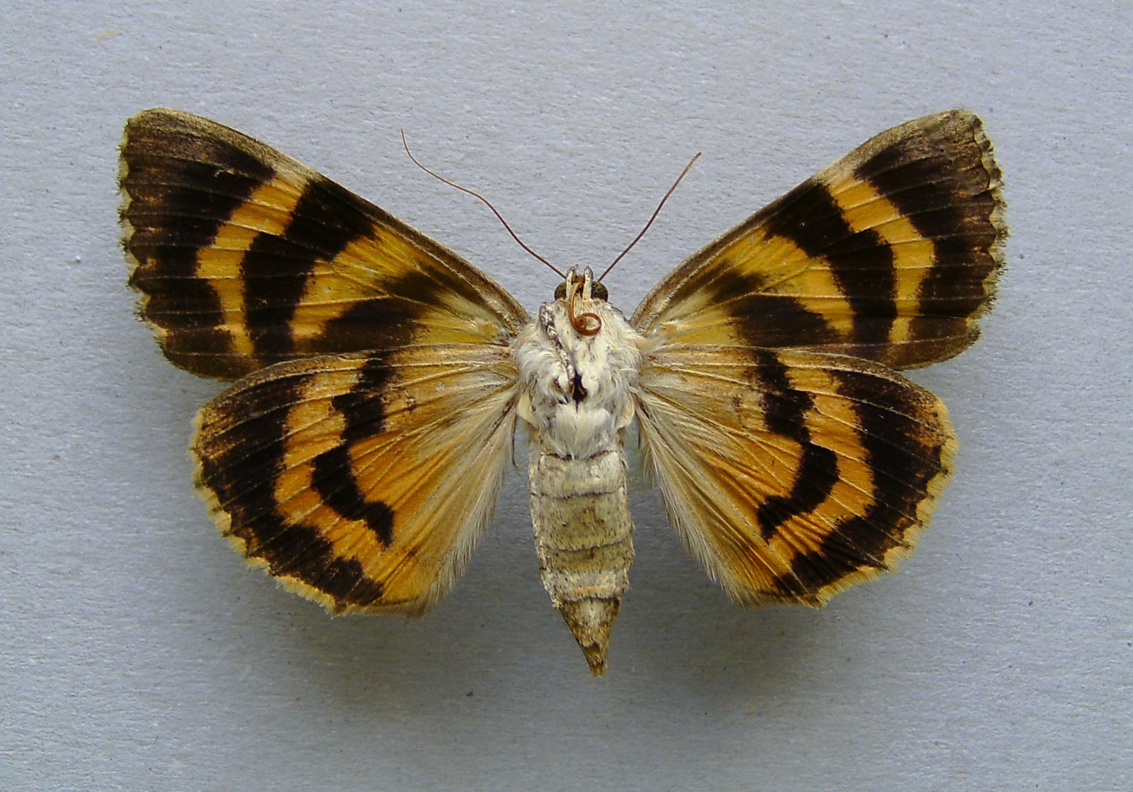 Catocala palaeogama, underside, Montérégie